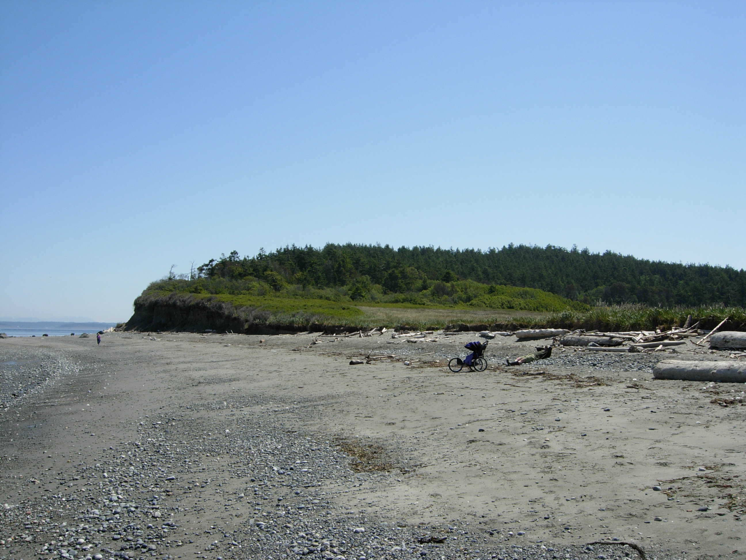 North Beach at Fort Worden State Park, Port Townsend, Washington